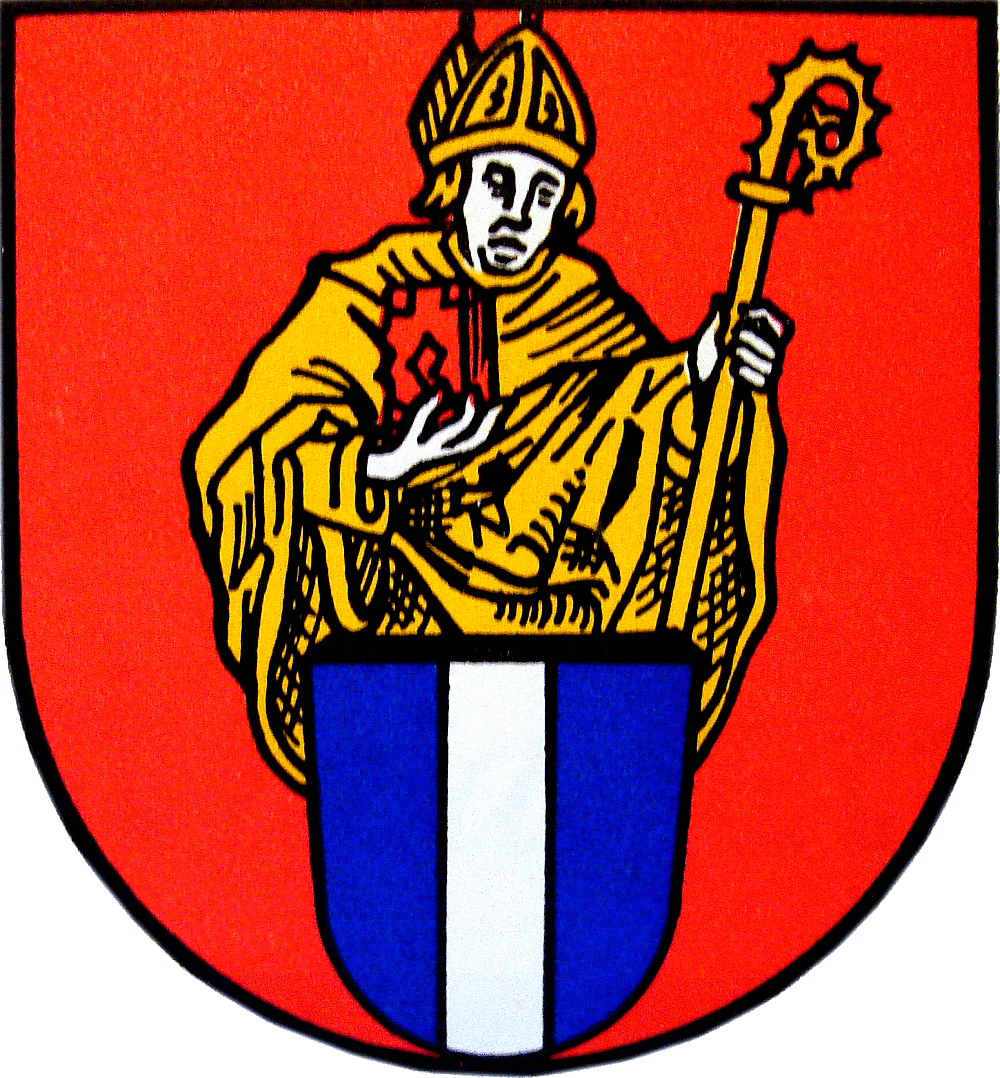 Coat of arms of Glan-Münchweiler, Rhineland-Palatinate, Germany